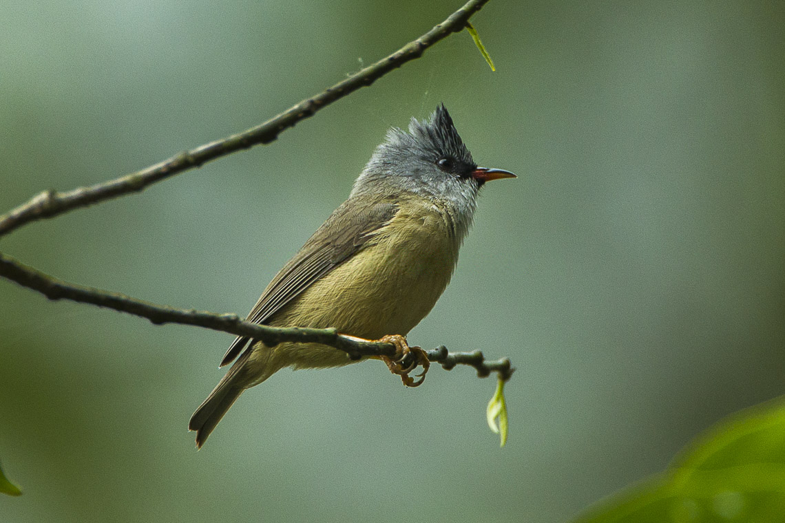 Black-chinned Yuhina - Bhutan_S4E1500